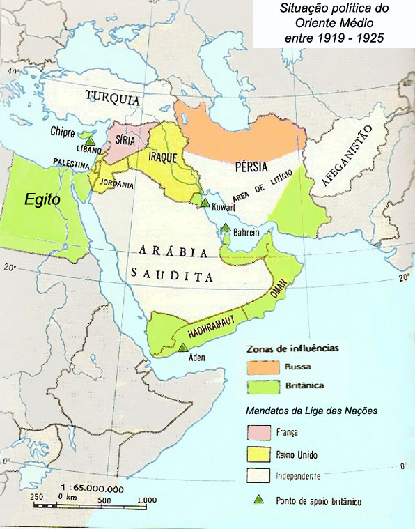 Political map of the Middle East between 1919 and 1925, indicating the League of Nations mandates and spheres of influence of European powers in the region.